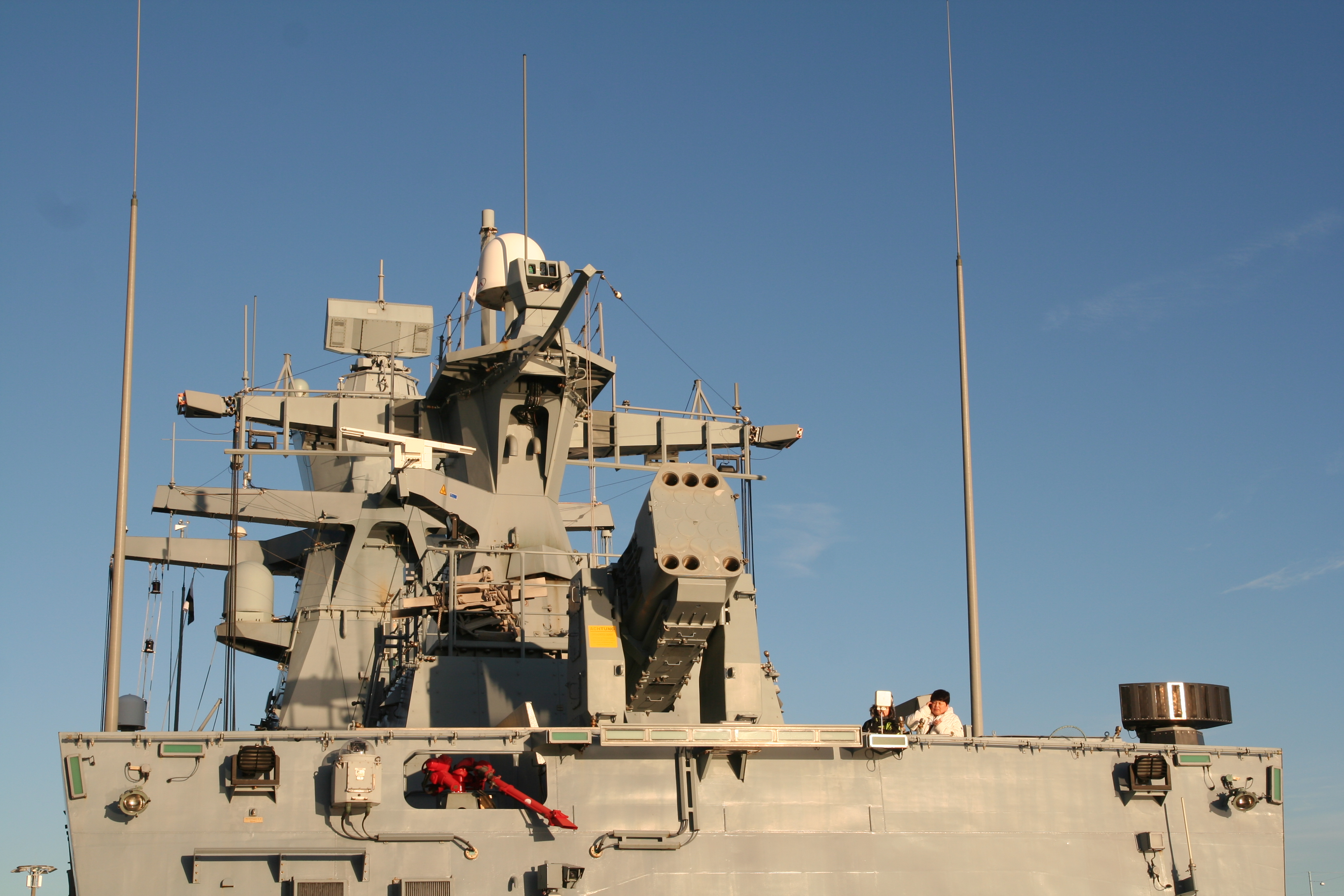 The superstructure of F260 Braunschweig, seen from the aft.